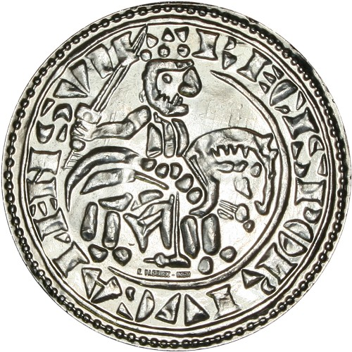 Portugal, 1,5 Euro (Cu-Ni), Morabitino of Sancho II, 2009